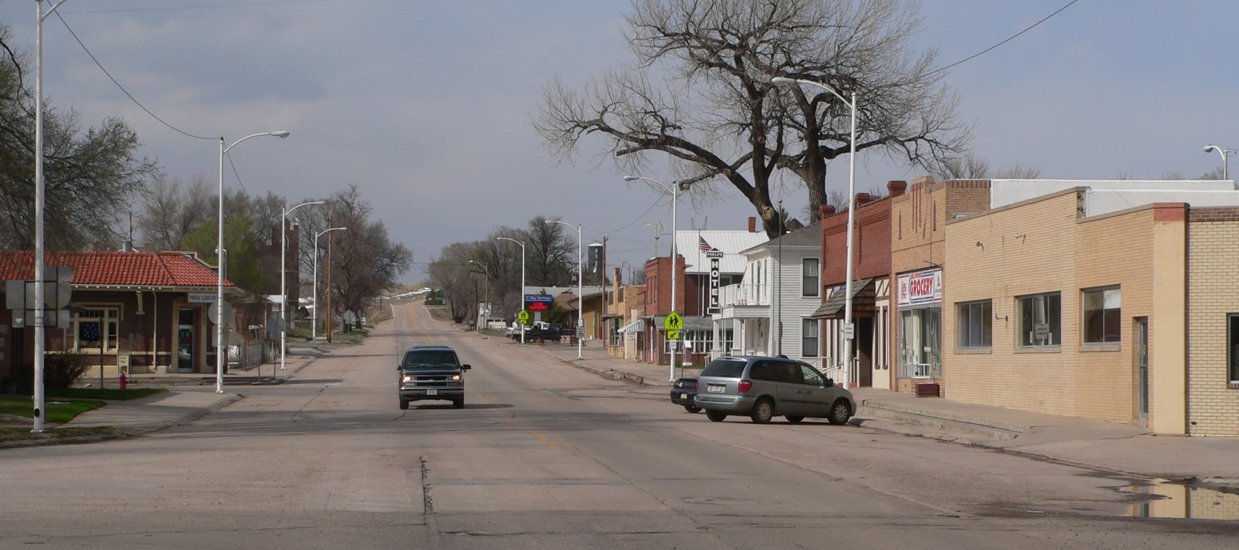 Downtown Big Springs, Nebraska: Pine Street (U.S. Highway 138), looking north.